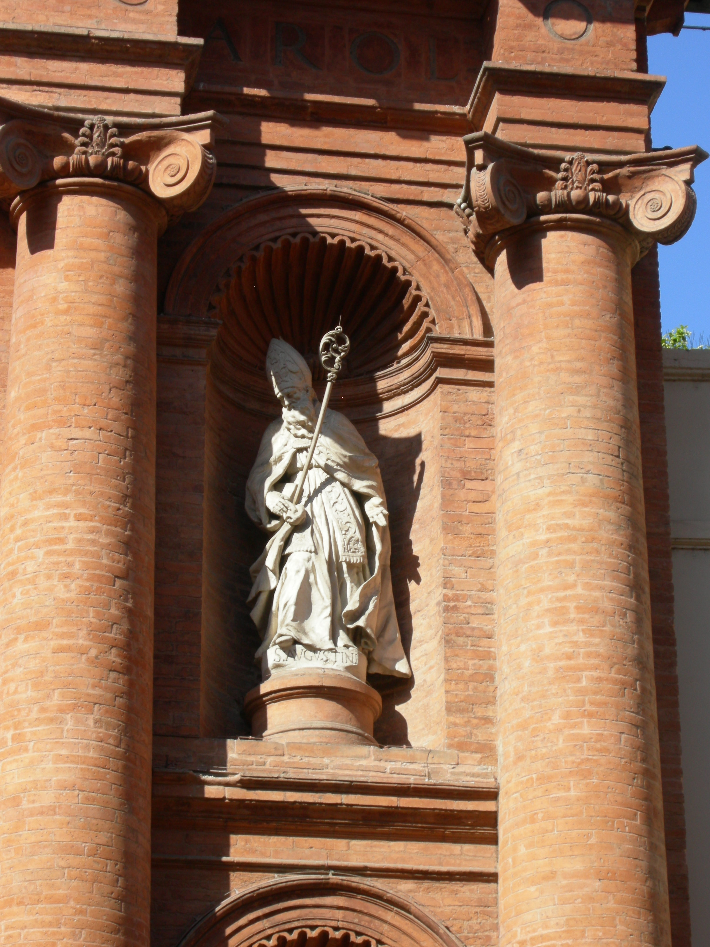 Sant'Agostino statue on the facade of San Carlo church in Ferrara, Italy